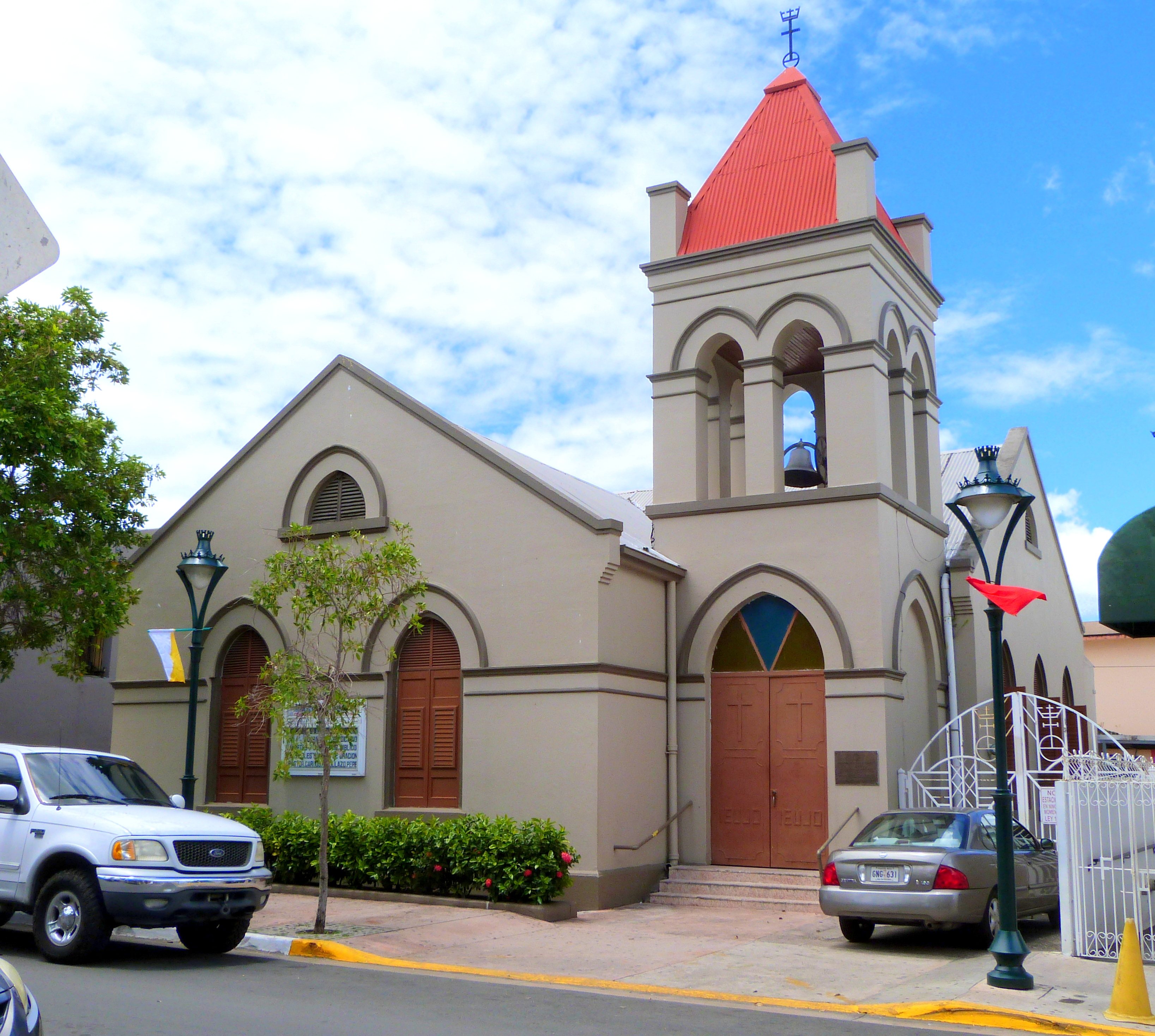 The United Evangelical Church in Puerto Rico church building facing the town plaza in Juana Díaz, Puerto Rico.